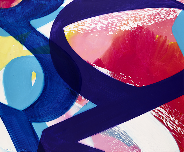 Painting: Untitled, Acrylic on canvas, 190 x 230 cm, Aatifi, 2014 - part of the solo exhibition "Aatifi - News from Afghanistan" in the Pergamon Museum Berlin in 2015.